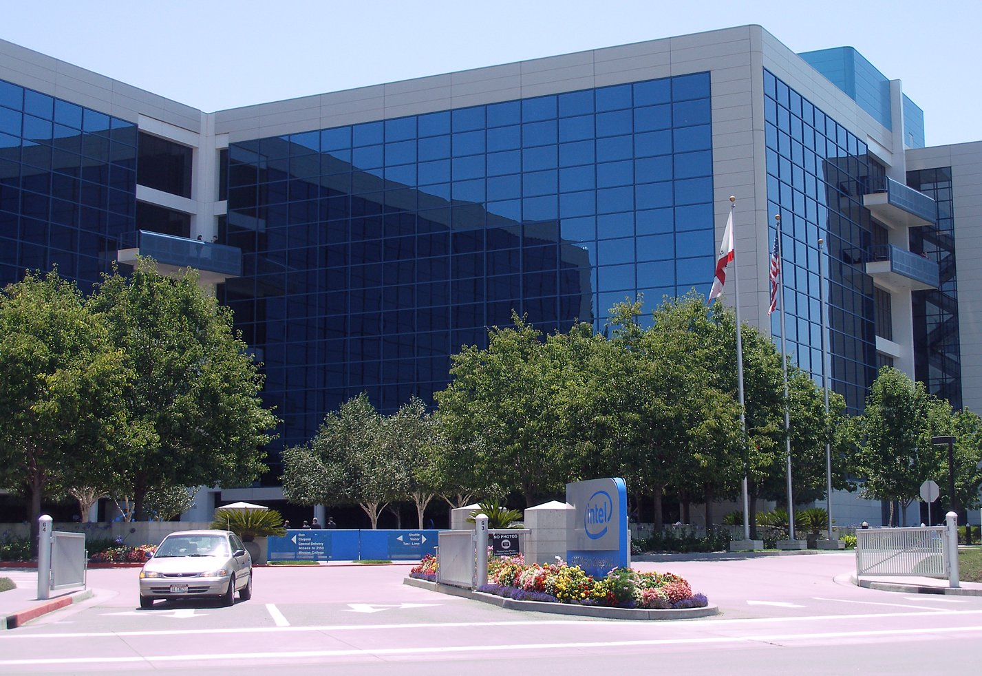 The headquarters of Intel Corporation in Santa Clara, California. Note the small "No Photos" sign in the picture. Photographed by user Coolcaesar on July 16, en:2006.